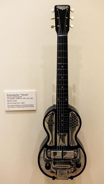 Rickenbacher Vibrola (electric Spanish guitar, 1937-1939) - MIM PHX We read about the Musical Instrument Museum (MIM) on Trip Advisor - it was the top rated attraction in Phoenix - and now we can see why! The museum is dedicated to musical instruments from around the world - the collection is fascinating, the exhibits are great and the hands-on displays were fun. We spent almost 5 hours here and still felt rushed - this place is definitely worth a detour. I know nothing about musical instruments so if you happen to know what a particular instrument is, please feel free to comment on it. I tried to include as many labels as possible. The museum is in Phoenix, AZ - we visited it in March 2014.